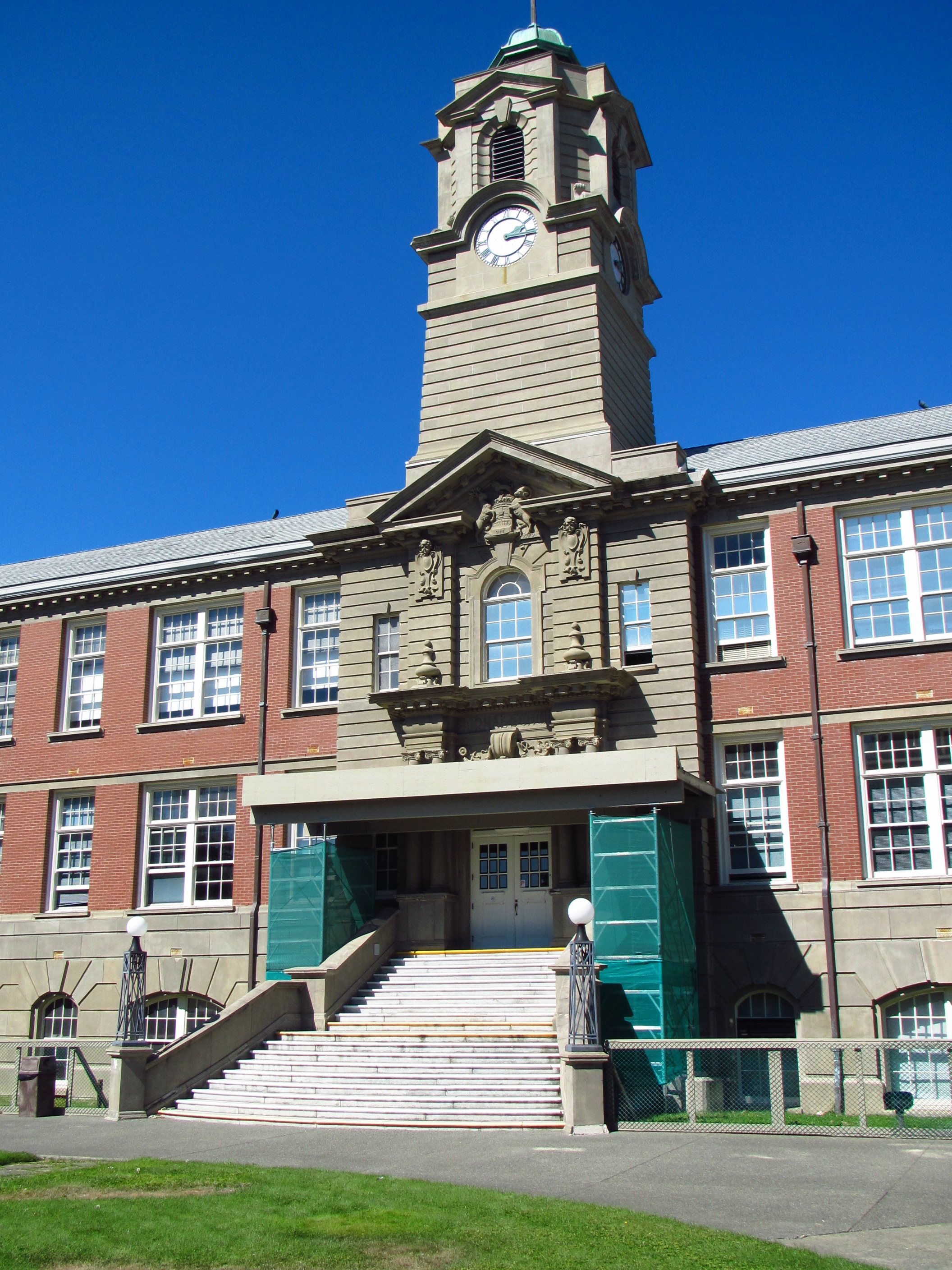 Originally the Normal School, Camosun College - Lansdowne Campus